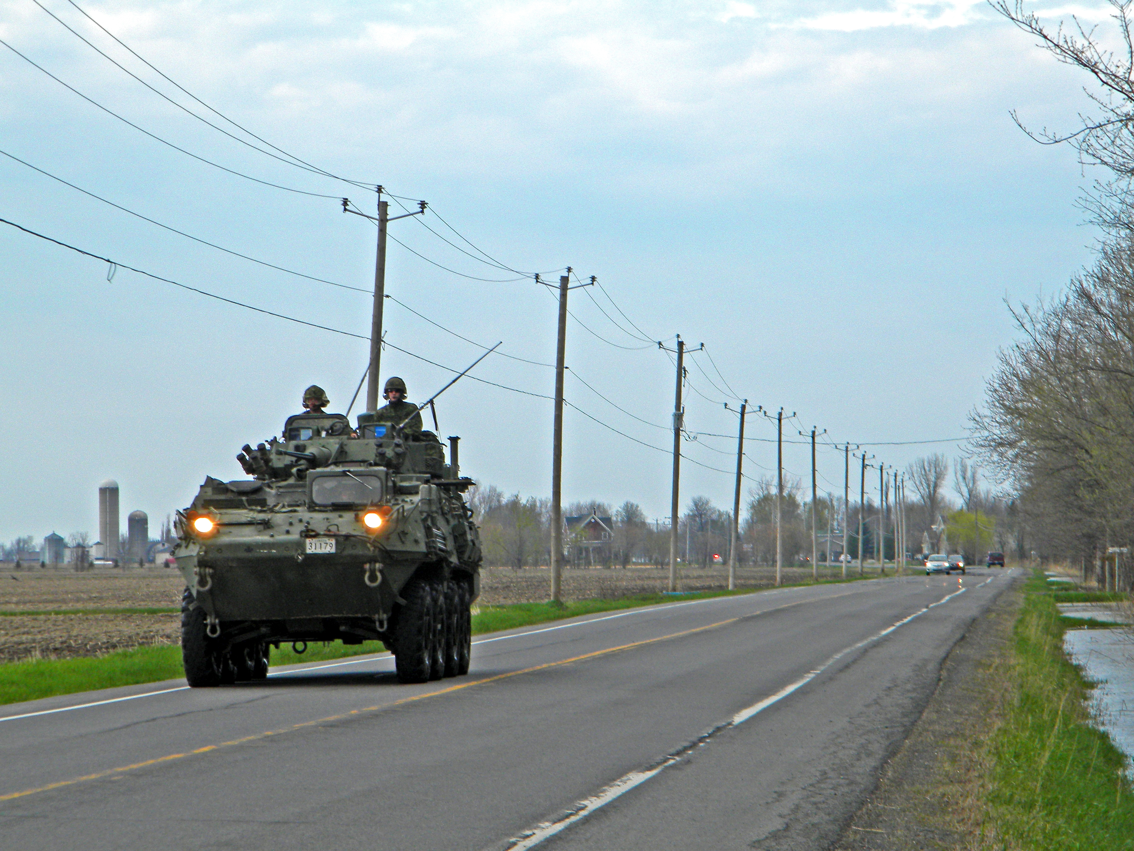 Military vehicle in Saint-Jean-sur-Richelieu during Operation Lotus (2011 Lake Champlain and Richelieu River Floods in Quebec, Canada).